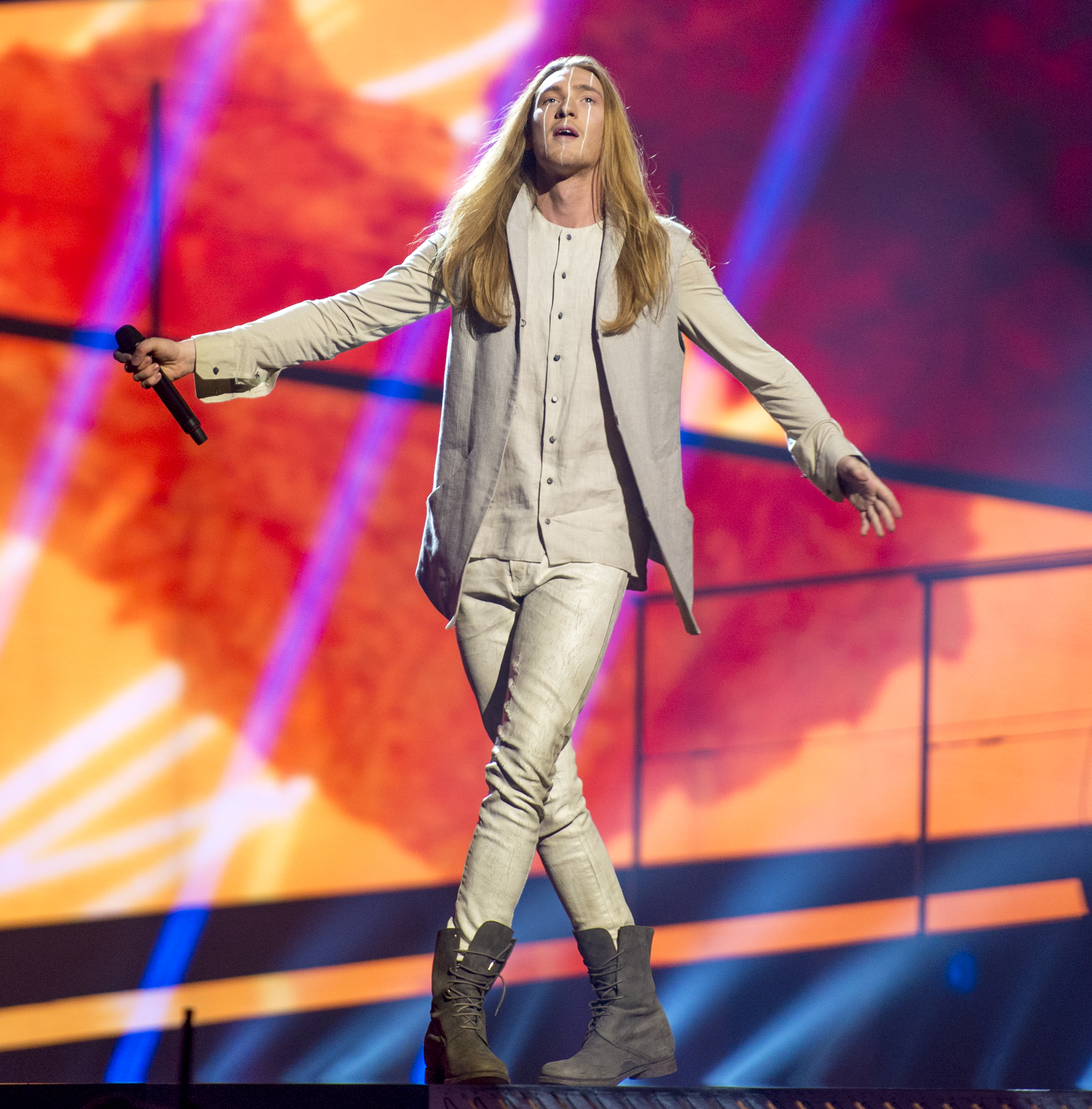 Ivan representing Belarus with the song "Help You Fly" during a rehearsal before the second semi final of the Eurovision Song Contest 2016 in Stockholm. (Help translate this text)